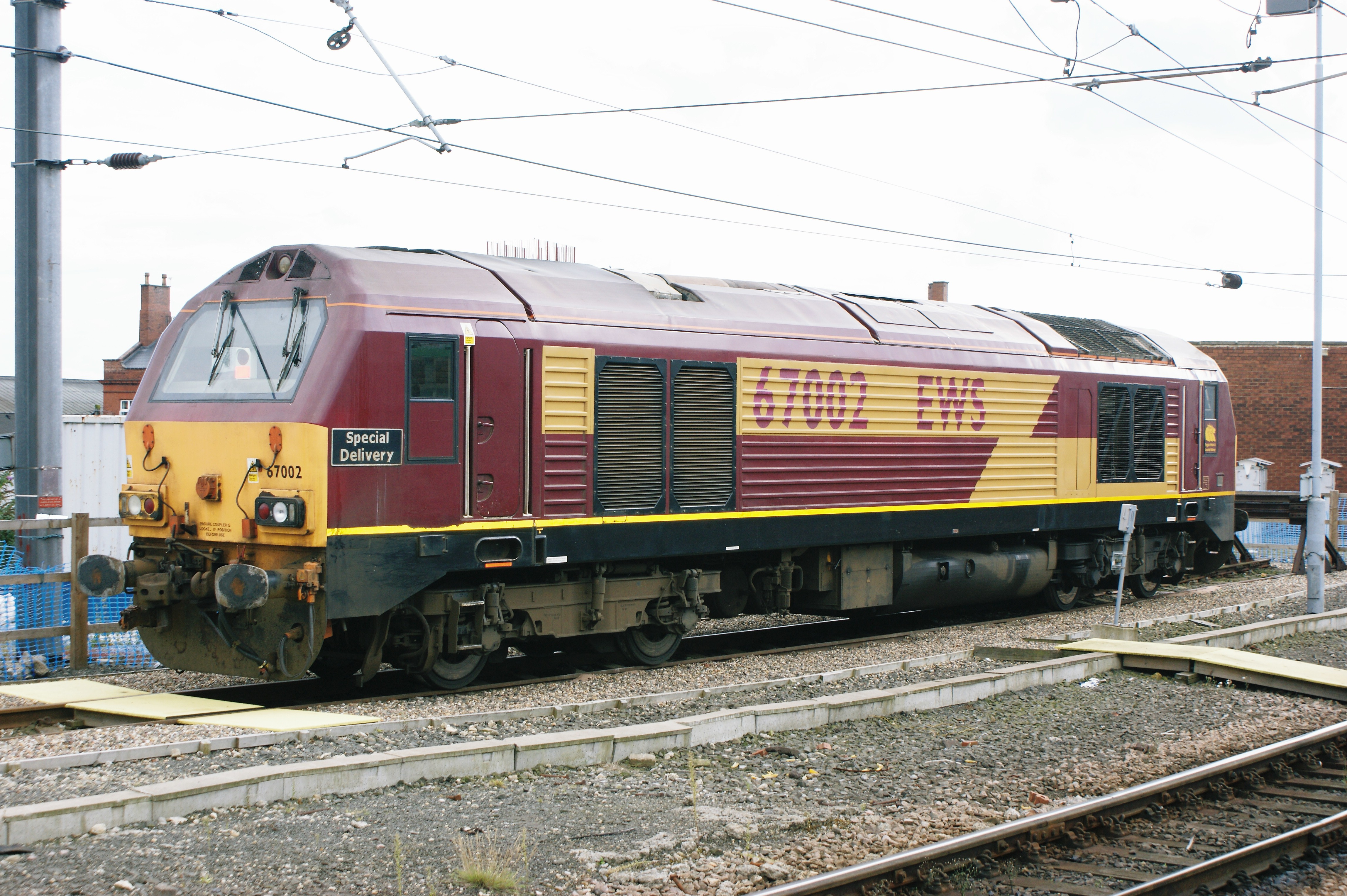 Alstom Class 67 3,200 hp Bo-Bo No.67 002 "Special Delivery" of EWS on Thuderbird duties at Newcastle Central, 9/08.